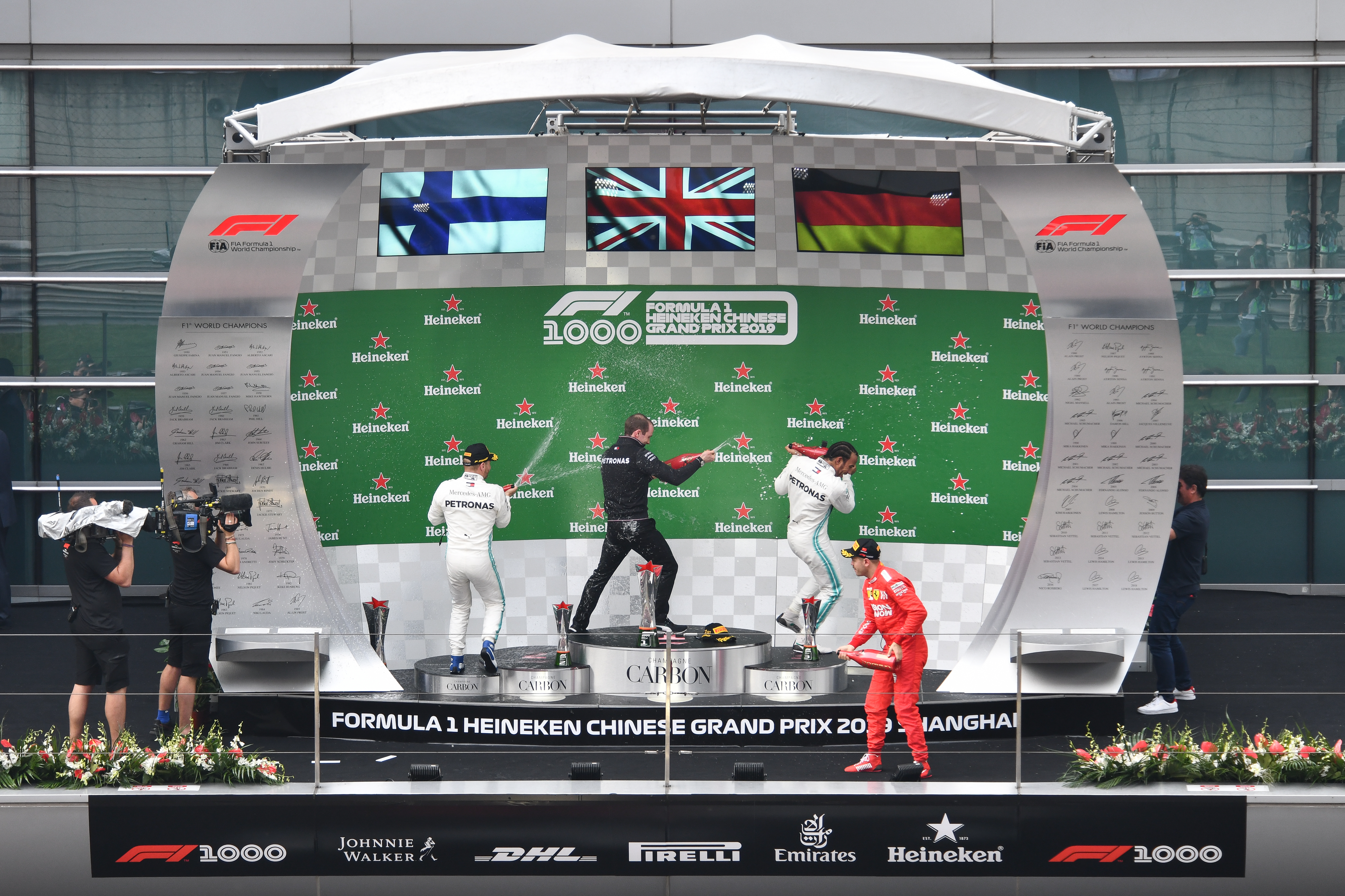 F1 1000th 1st Lewis Hamilton 2nd Valtteri Bottas 3rd Sebastian Vettel